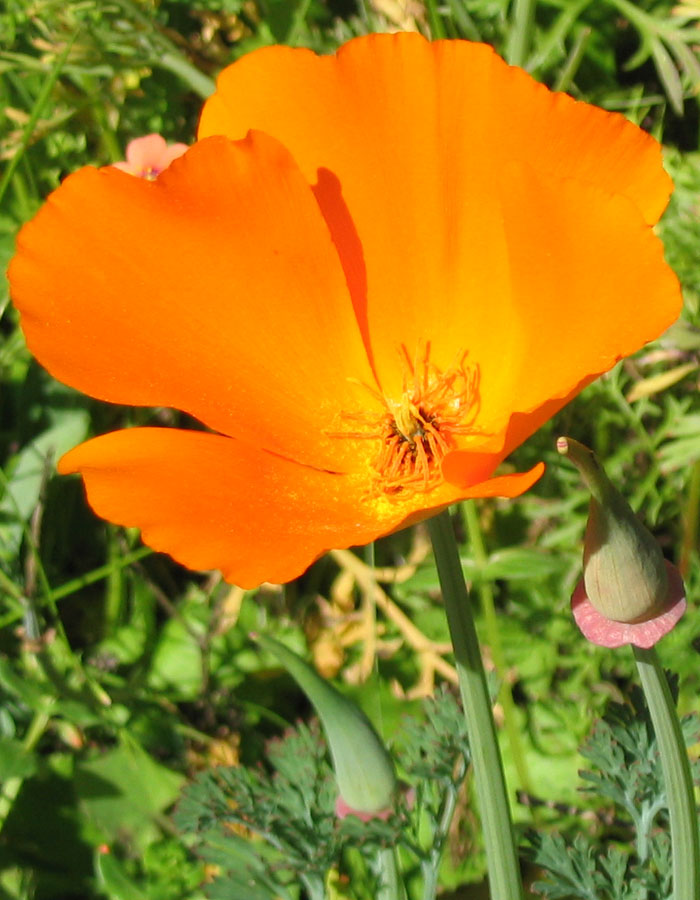 Image of a California Poppy flower (Eschscholzia californica). Photo taken by User:Minesweeper on March 9, 2004 and released under terms of the GNU FDL. Category:Images of flowers